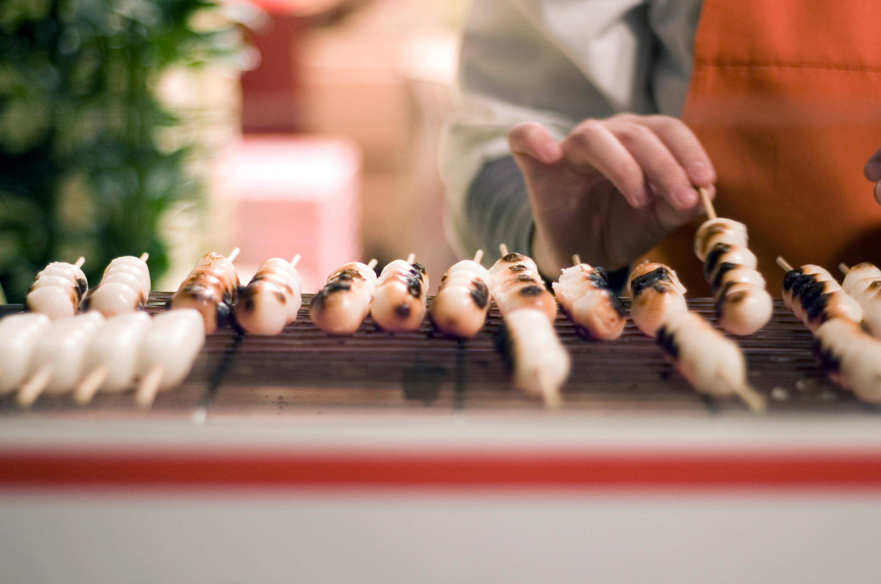 Day 5, Night - Kiyomizu-dera, Kyoto Tasty Dango, japanese gooey sugarballs on a stick. Mmmm...